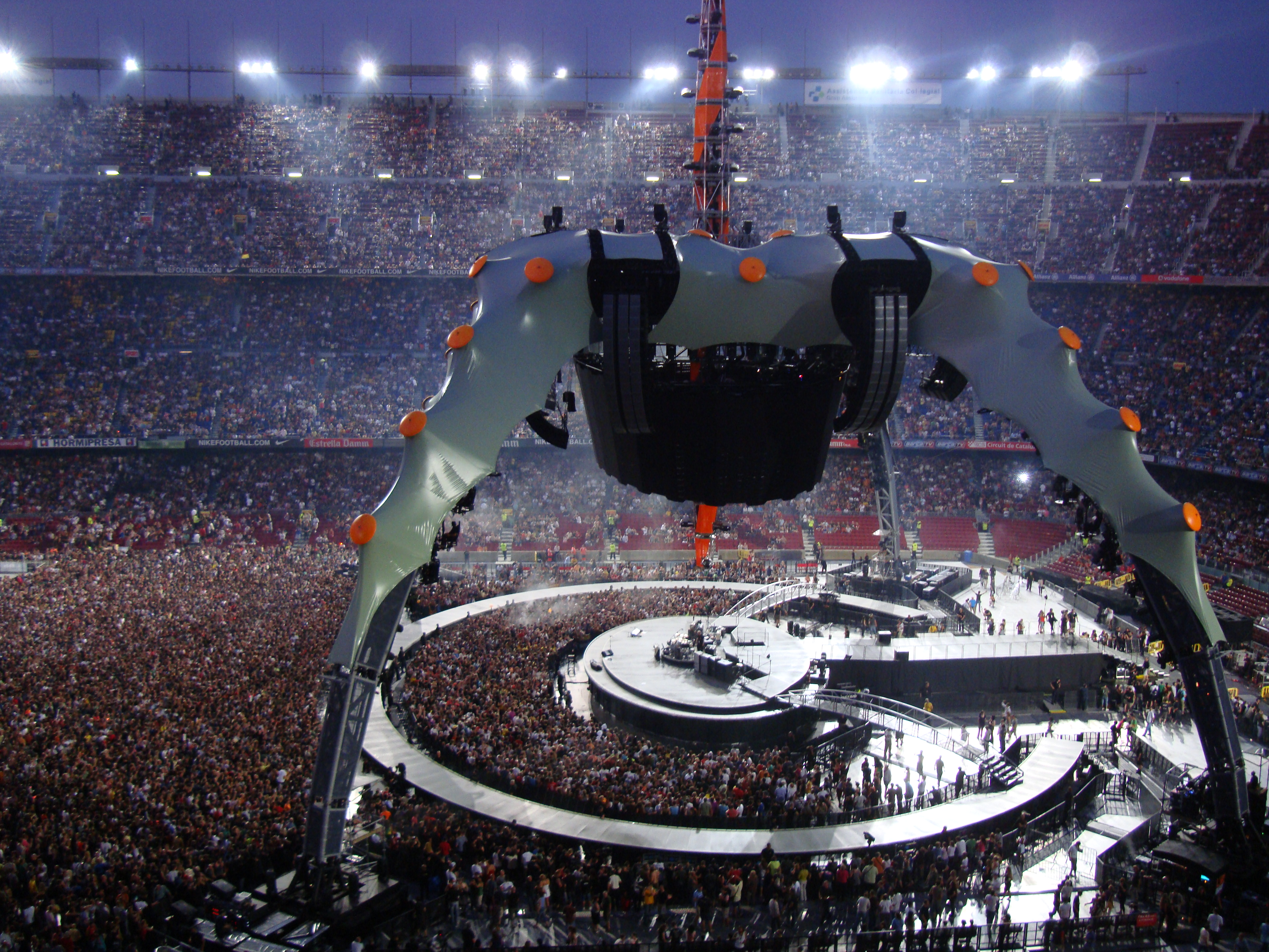 U2 360° Tour stage in Barcelona. The video screen is above the band in a large black container directly above the band. Four silver legs with that hold the container are curving downwards into the audience; these are what contain the speakers and lighting devices. Five circular orange lights are dotted along the top of each leg. The round stage is surrounded by a catwalk which can be reached by crossing one of two rotating bridges. The audience surrounds the band on all sides of the stage.